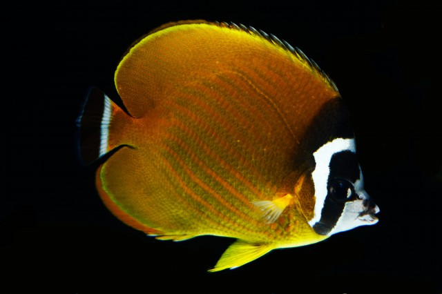 Chaetodon wiebeli (Kaup, 1863)